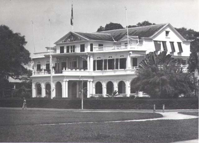 I inherited this photo from my father, Ted Hill, who took it.